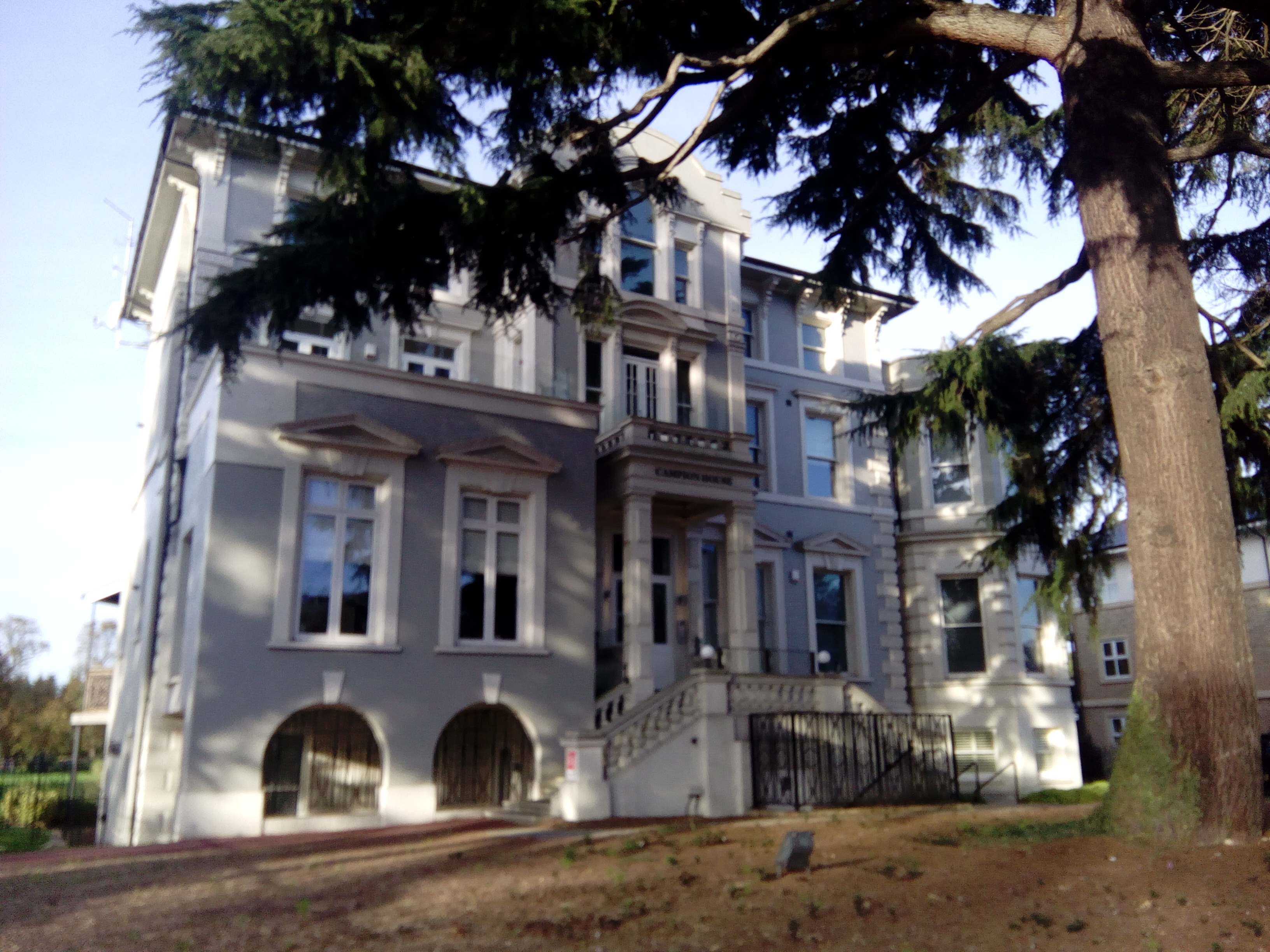 Picture of Campion House taken from the pavement, in October 2017, this building is all that remains of the original buildings following the redevelopment of the site for housing.